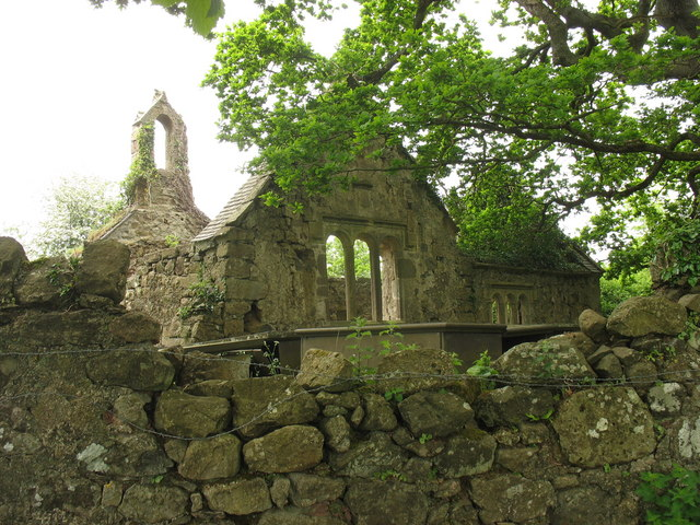 St Mihangel from outside the circular wall enclosing the churchyard